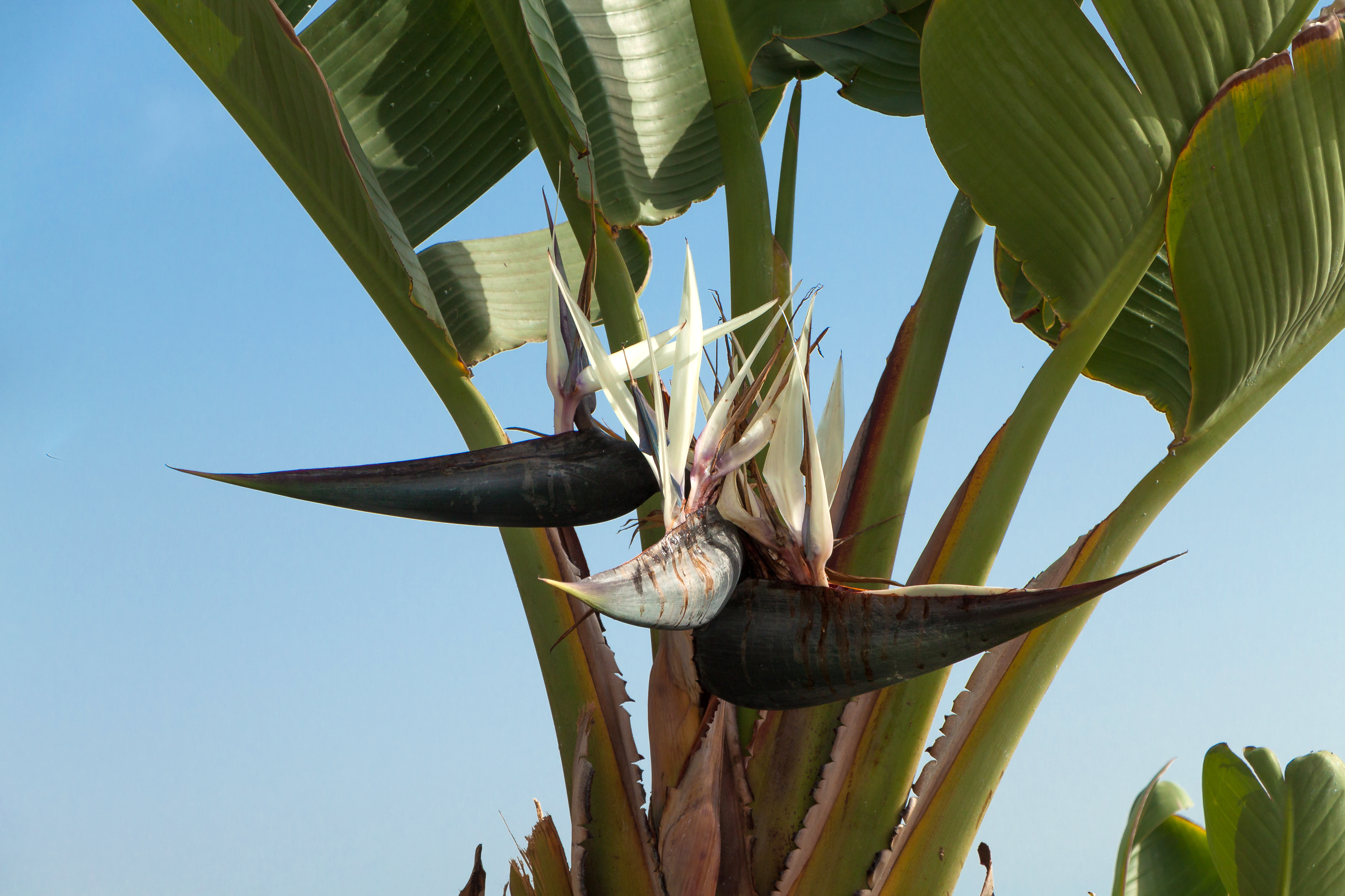 Strelitzia alba (L.f.) Skeels , White-flowered wild banana, flowers; San Agustín, Gran Canaria, Canary Islands, Spain.